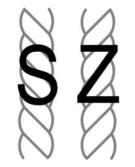 "Twist" in spun yarns or ropes is often labeled S-twist or S-laid (for left-handed twist) and Z-twist or Z-laid (for right-handed twist), due to the respective left and right of the central sections of those two letters. To visually determine the handedness of the twist of a rope/yarn/etc, sight down a length of it; the direction of the twists as they progress away from you, left or right, reveals their handedness.